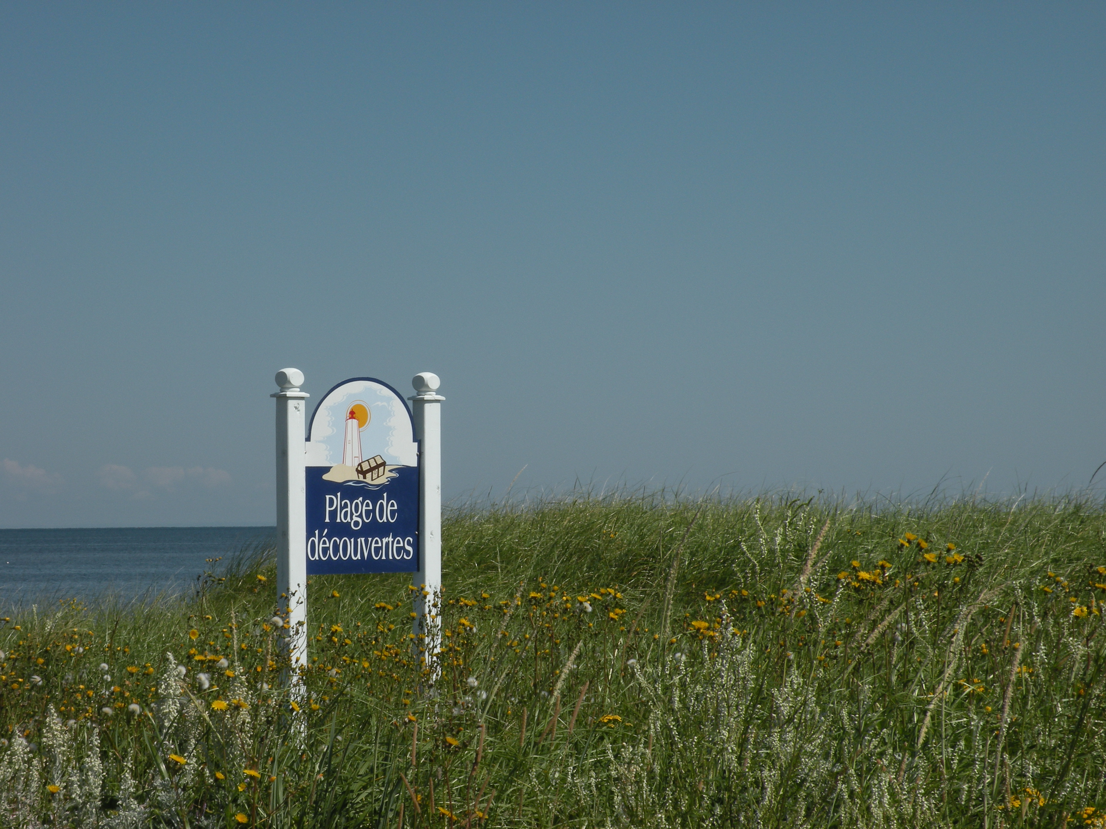 Découvertes Beach in Saint-Cécile, New Brunswick, Canada.